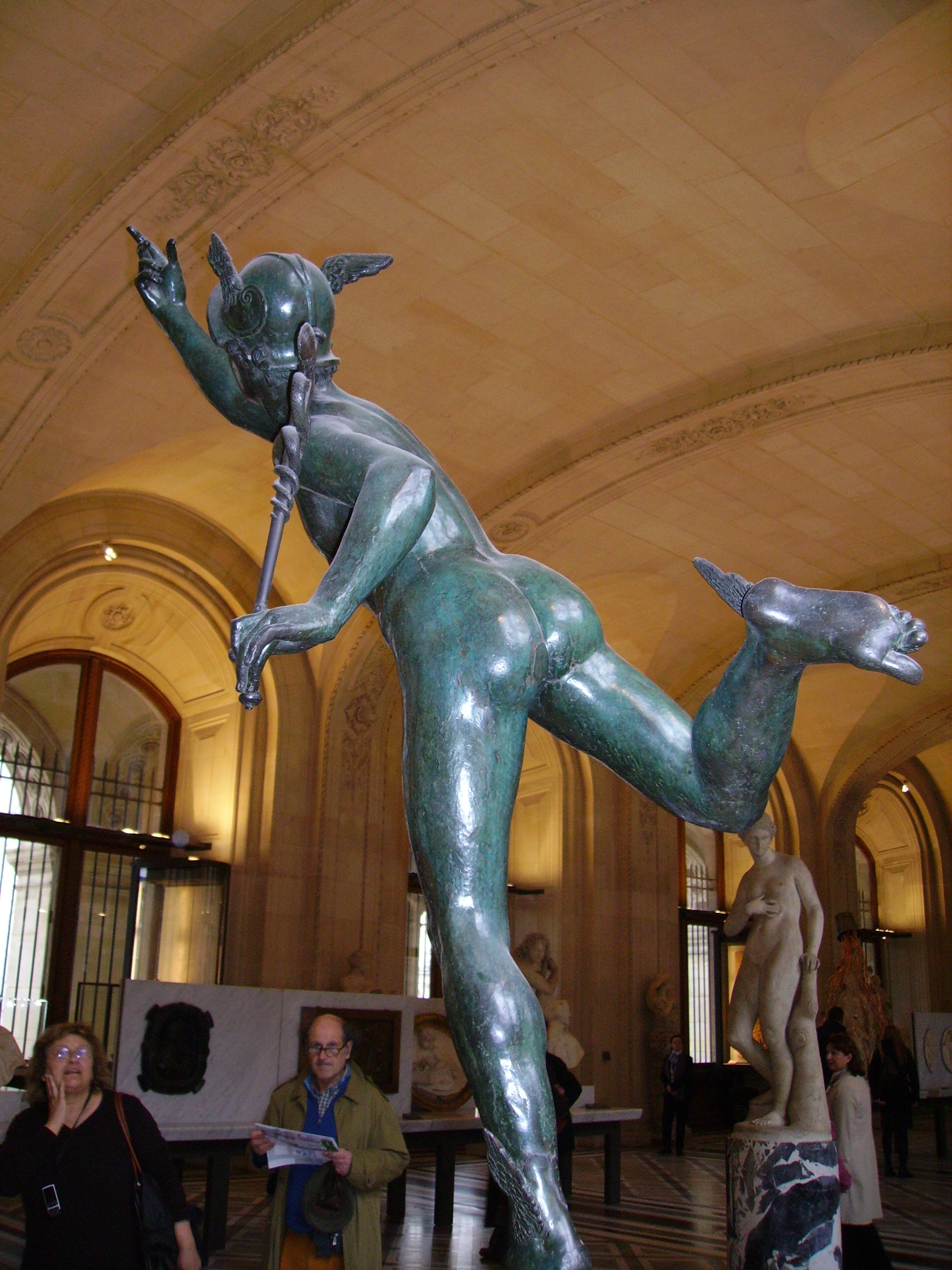 Flying Mercury (Mercure volant) by Giambologna, a Flemish-Italian sculptor.